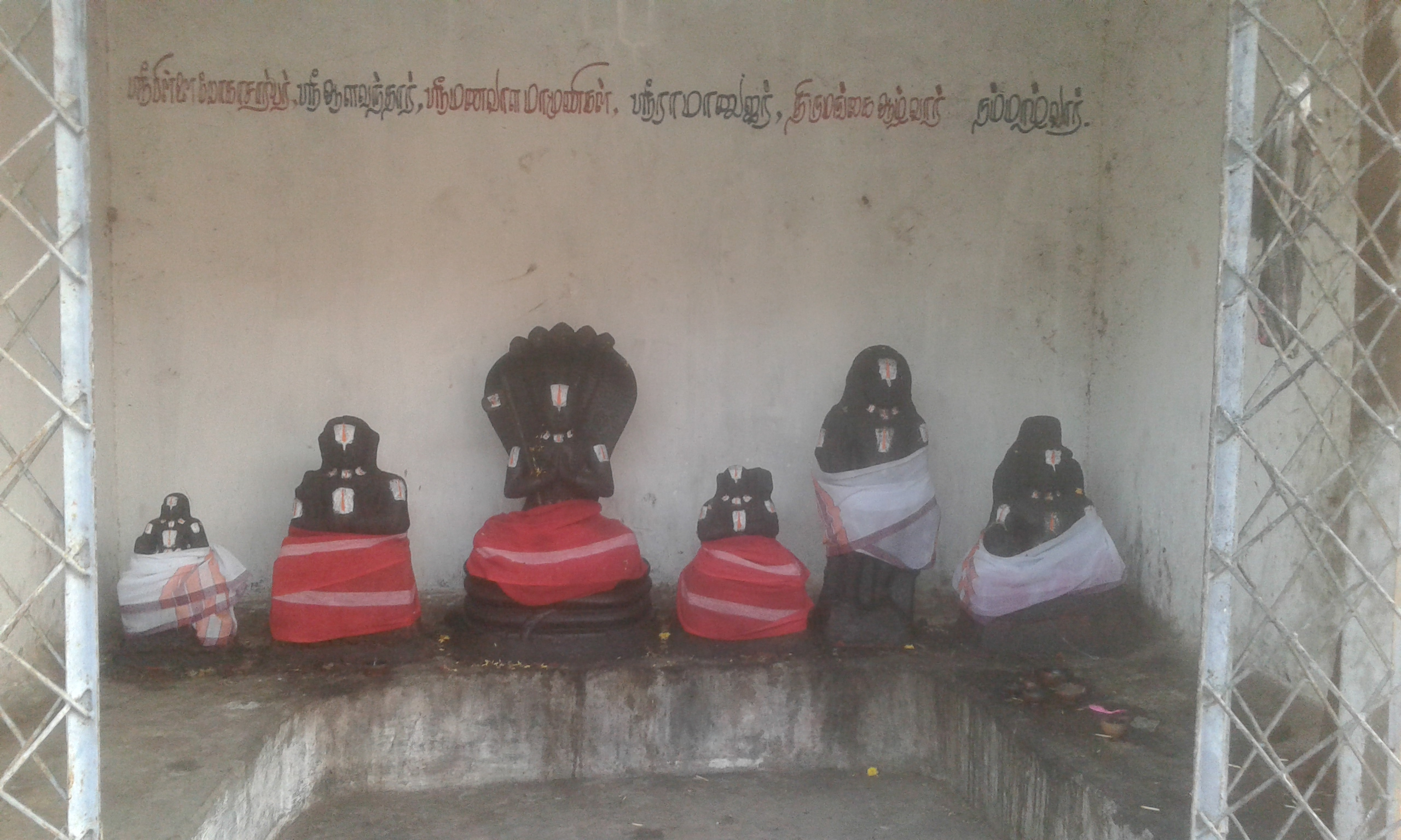 Thirukoodalur